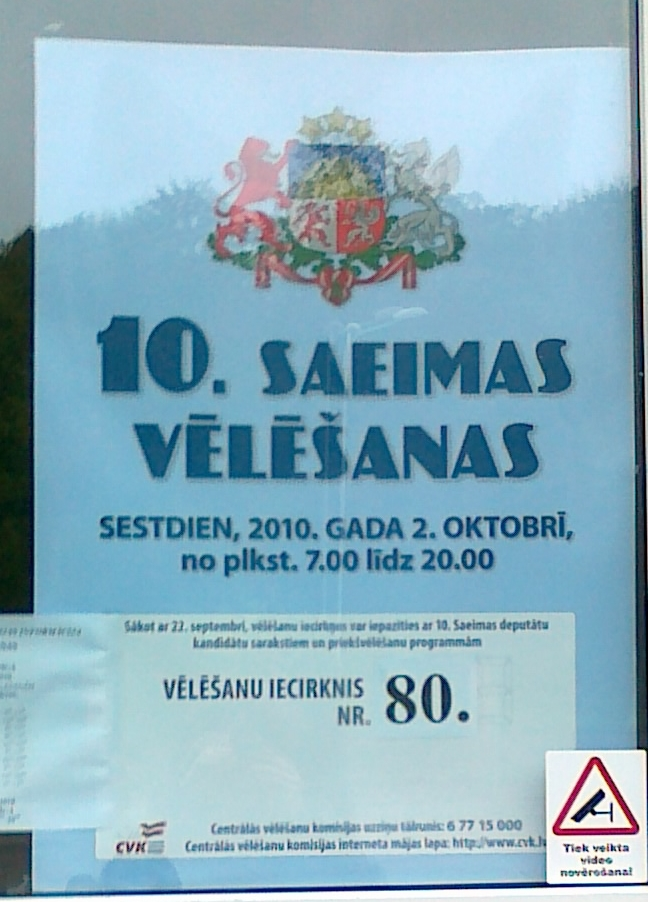 Polling station №80 in Riga French Lycée for the 2010 parliamentary election.